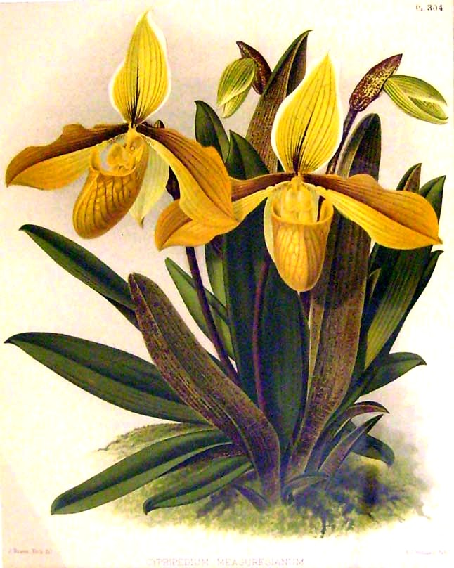 Paphiopedilum cultivar, unplaced name: Cypripedium × amesianum B.S. Williams (1887) syn: Cypripedium × measuresianum L.O. Williams (1887) (artifical hybrid: Paphiopedilum venustum × Paphiopedilum villosum)